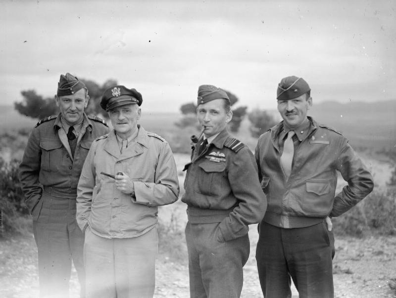 Royal Air Force Operations in the Middle East and North Africa, 1939-1943. Senior Allied Air Commanders gathered at the Headquarters of the North African Tactical Air Force, Ain Beida, Algeria. Left to right: Air Marshal Sir Arthur "Mary" Coningham, Air Office Commanding, NATAF, Major General C A Spaatz, Commanding General, North-west African Air Forces, Air Chief Marshal Sir Arthur Tedder, Air Officer Commanding-in-Chief, Mediterranean Air Command, and Brigadier General L S Kuter, Deputy Commander, NATAF. The meeting was probably called to defuse the public quarrel between Coningham and General George S Patton, the Commander of the US II Army Corps in Tunisia, over the provision of air support to his troops.